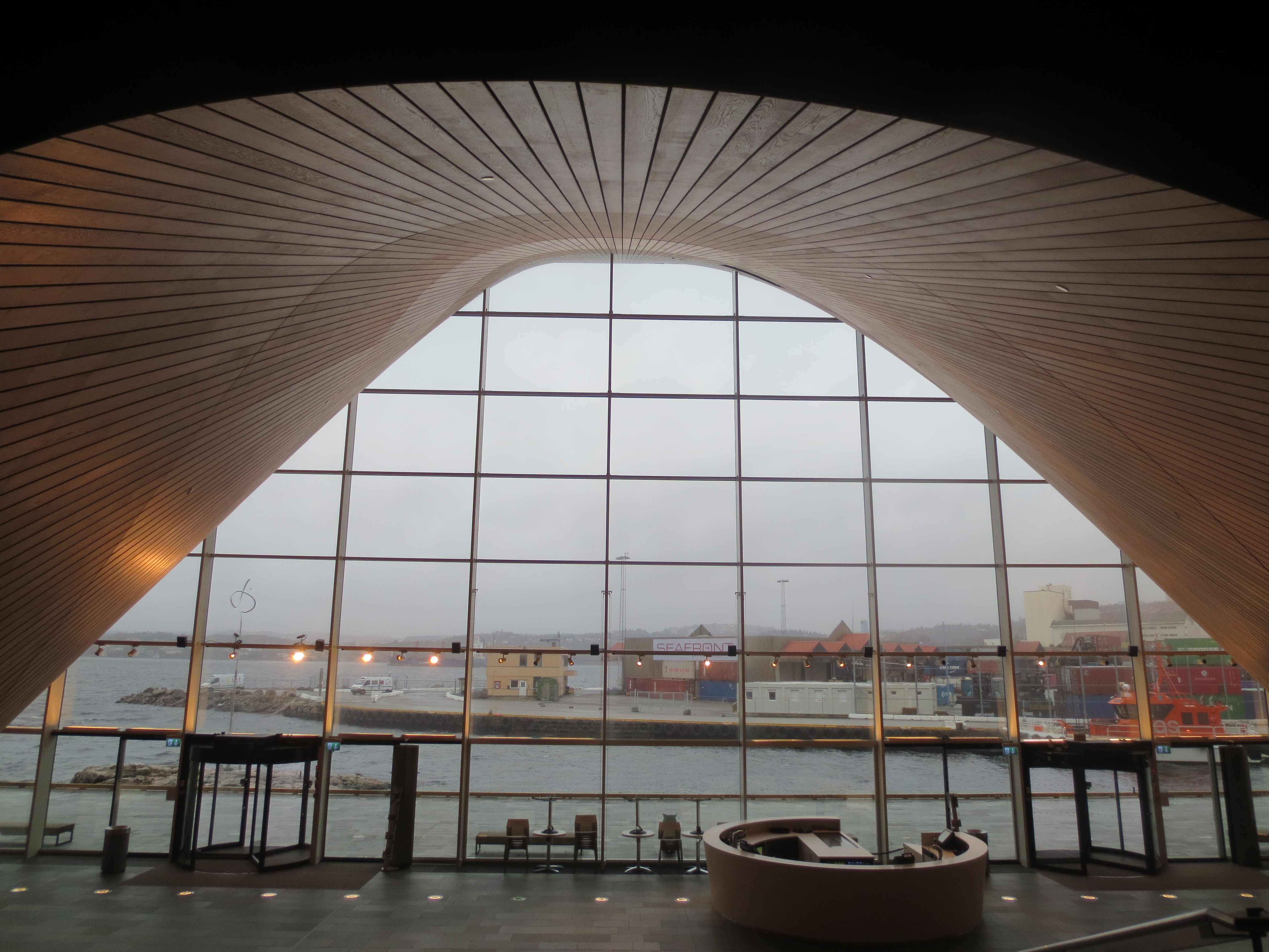 Image of the culture, theatre and opera house "Kilden" in Kristiansand, Vest-Agder county, Southern Norway.